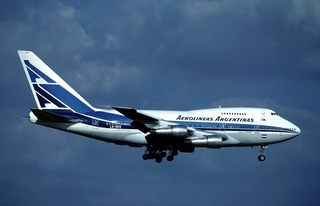 Aerolineas Argentinas Boeing 747SP at Zurich